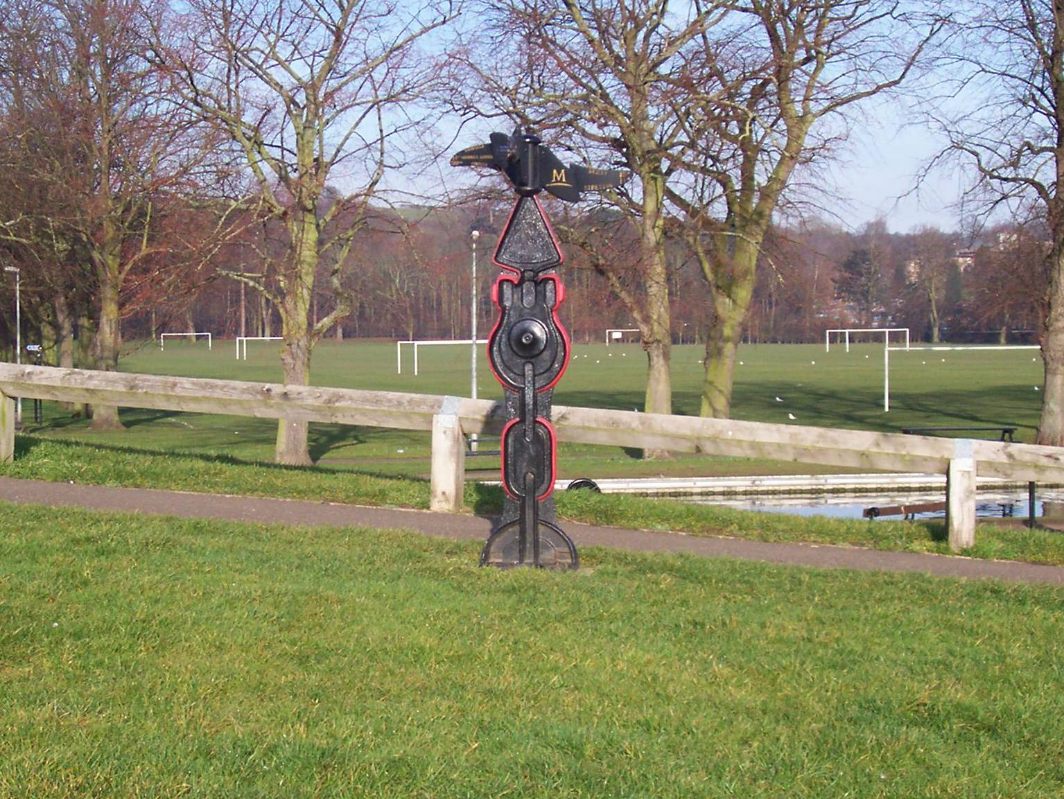 Sustrans milepost in Shobnall, Burton-on Trent for use in page on National Cycle Network route 63